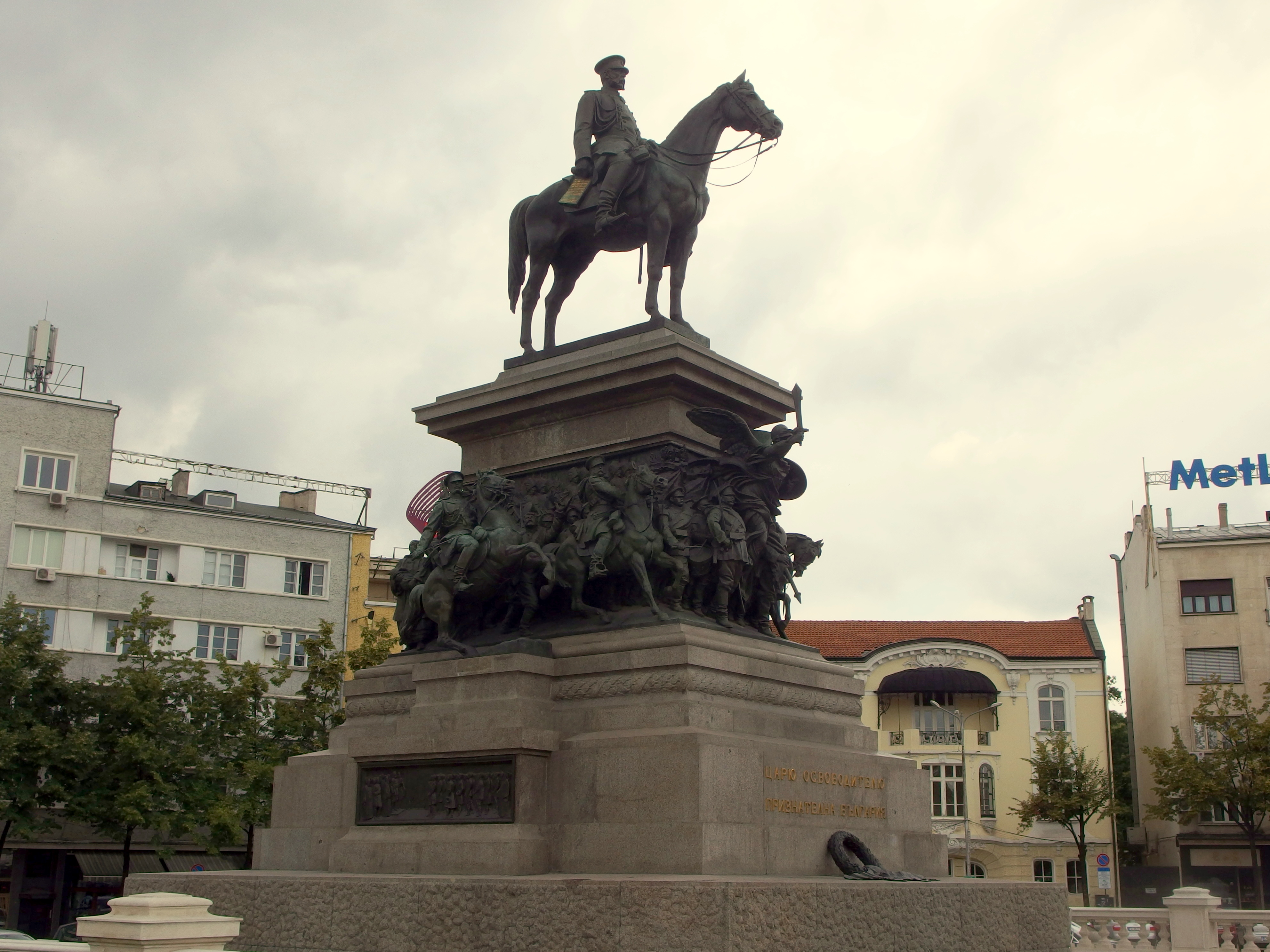 2014-06-14 in Sofia.